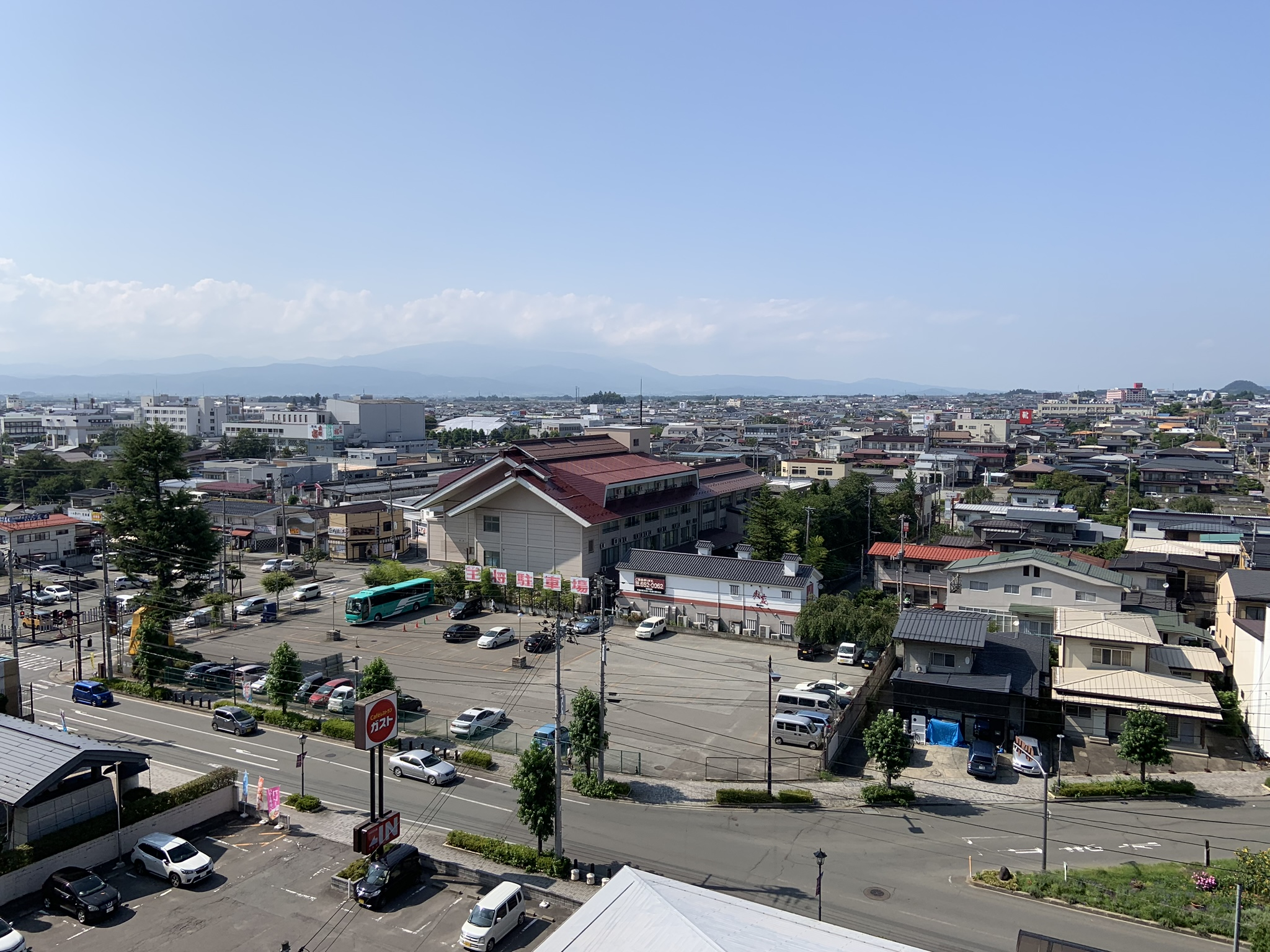 View from a hotel in Tendō City, Yamagata Prefecture, Japan. 3rd August, 2019.